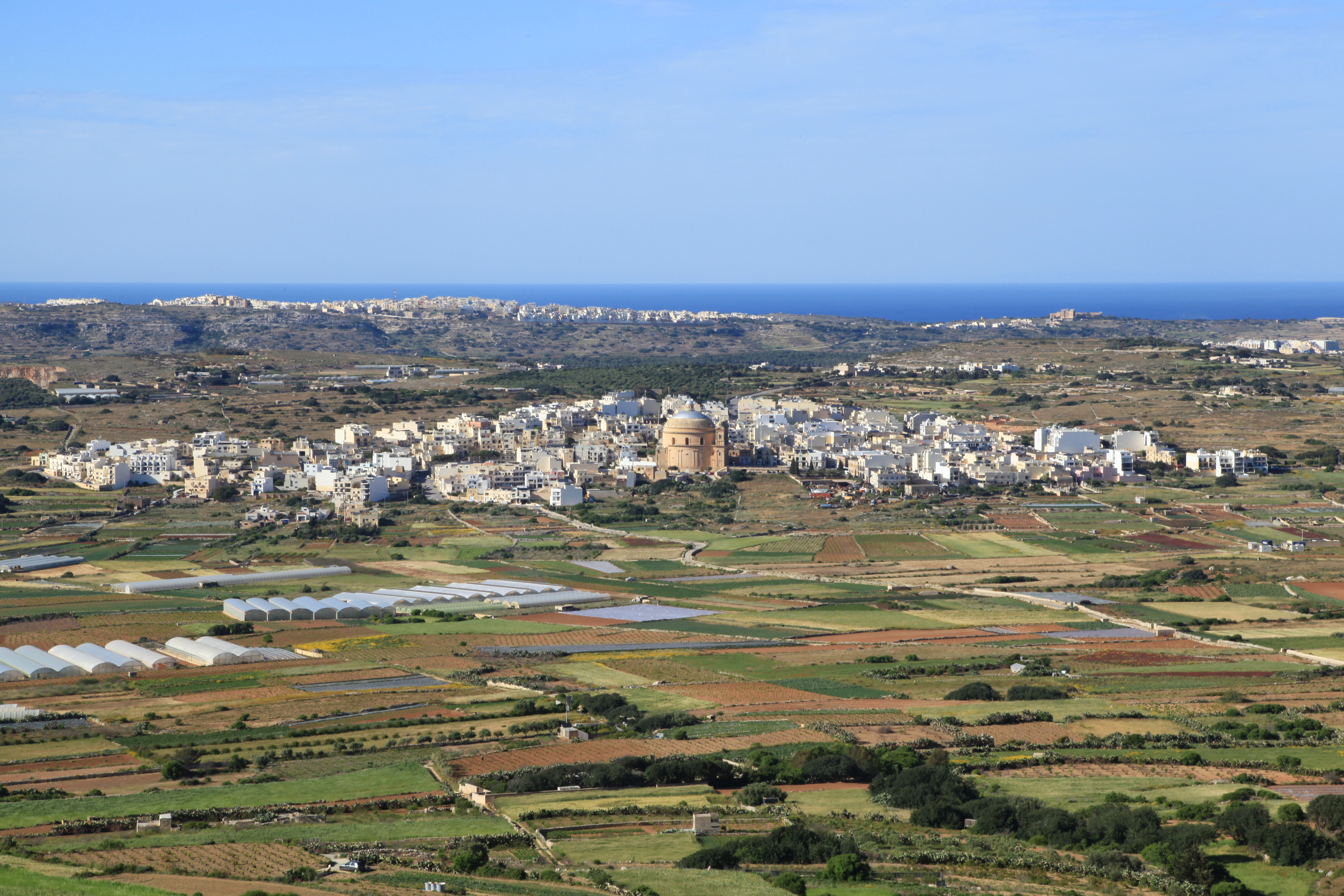 View from Fort Bingemma in Rabat (Malta) down to Mġarr, Malta